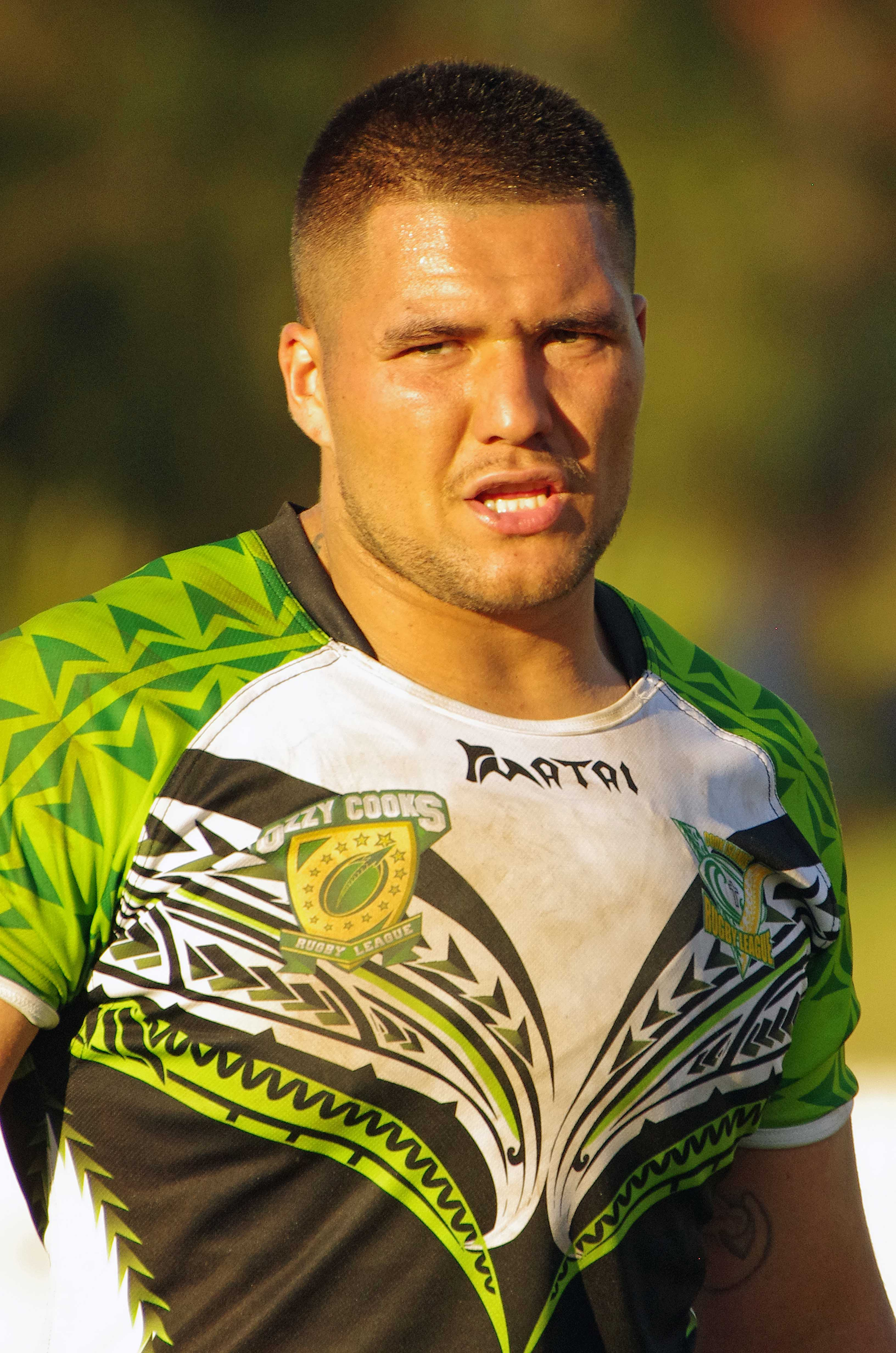 Australian rugby league footballer Carne Doyle-Manga representing the Cook Islands against Niue.